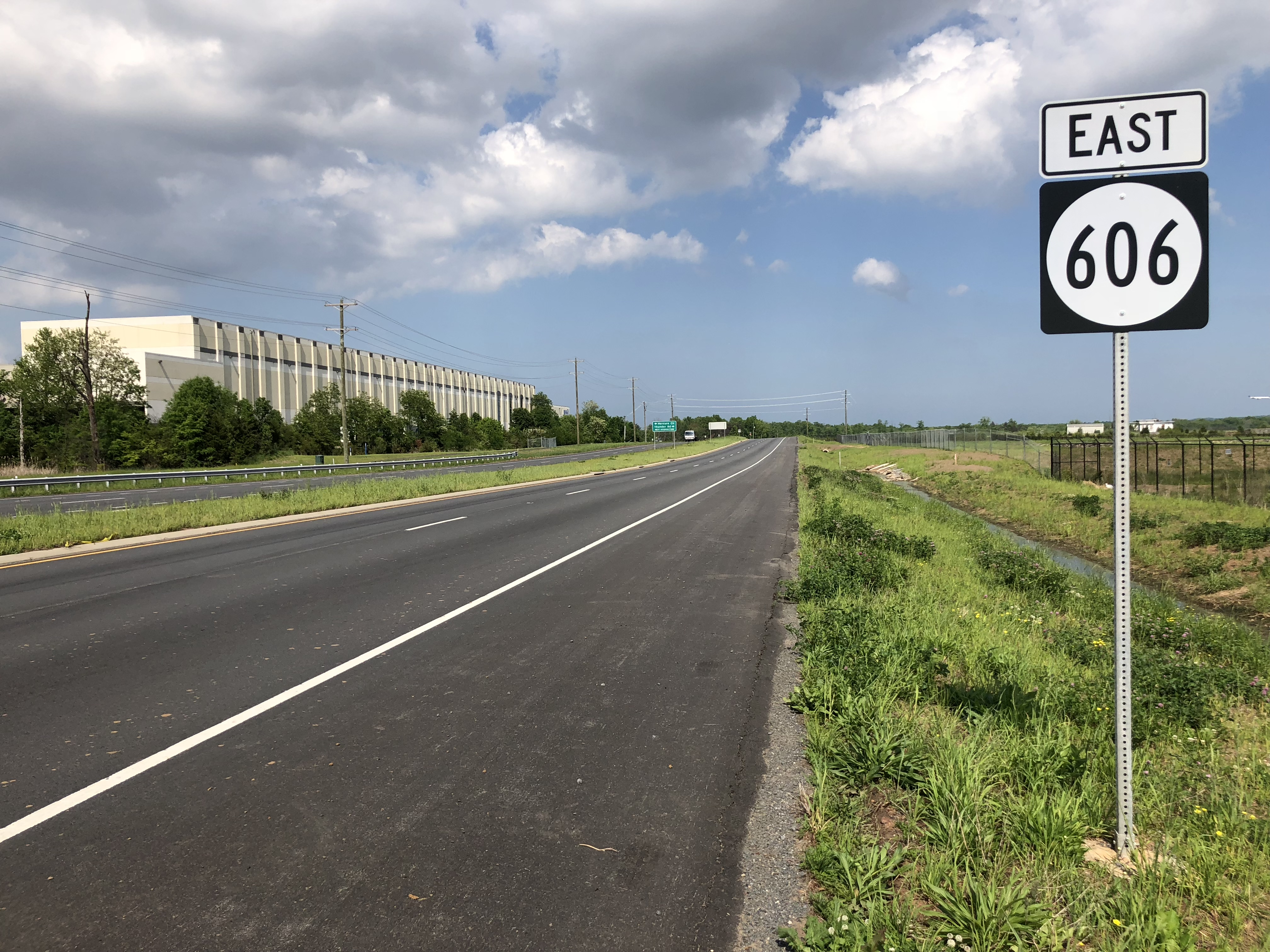 View east along Virginia State Route 606 (Old Ox Road) just east of Lightning Drive in the Dulles section of Sterling, Loudoun County, Virginia